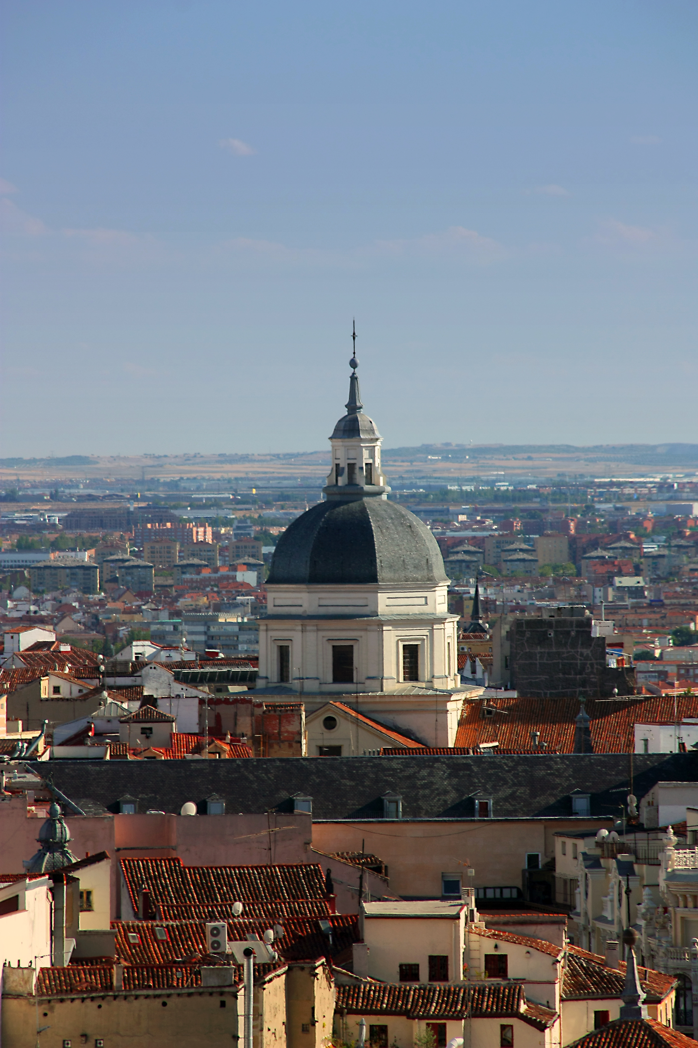 Dome of St. Isidore's Collegiate Church in Madrid (Spain).